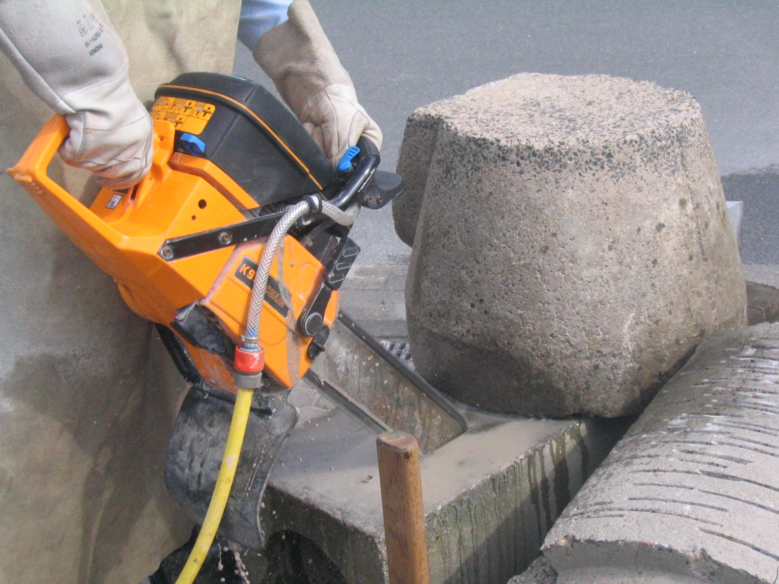 A gasoline driven, water cooled chainsaw with diamond tipped chain, for cutting concrete, brick and natural stone (Husqvarna K950 Chain). The hose supplies water.